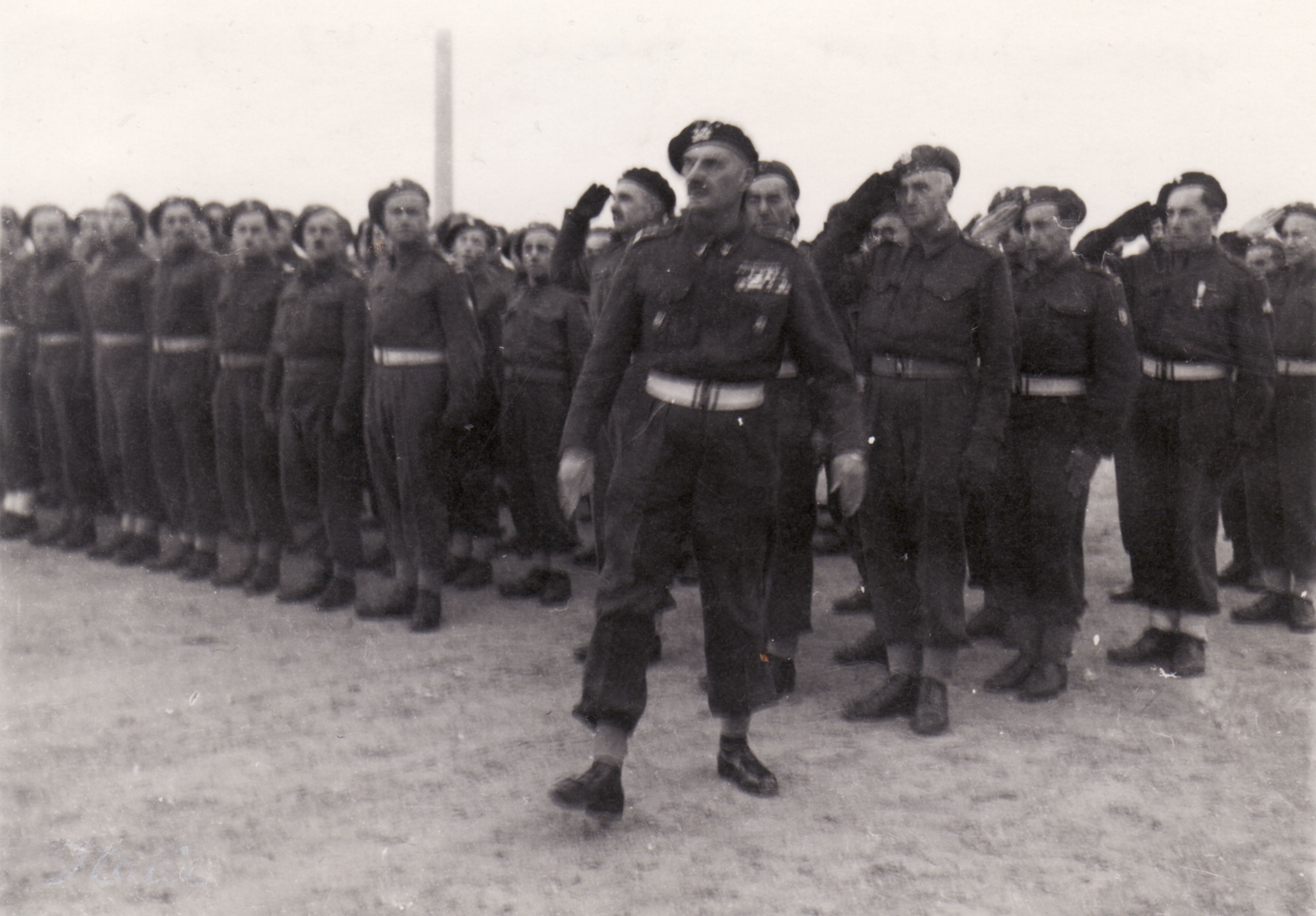 Polish II Corps: Władysław Anders during inspection of Polish high school in Casarano, Italy.